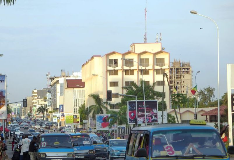 Pointe-Noire downtown, boulevard du General Charles de Gaulle, Congo.